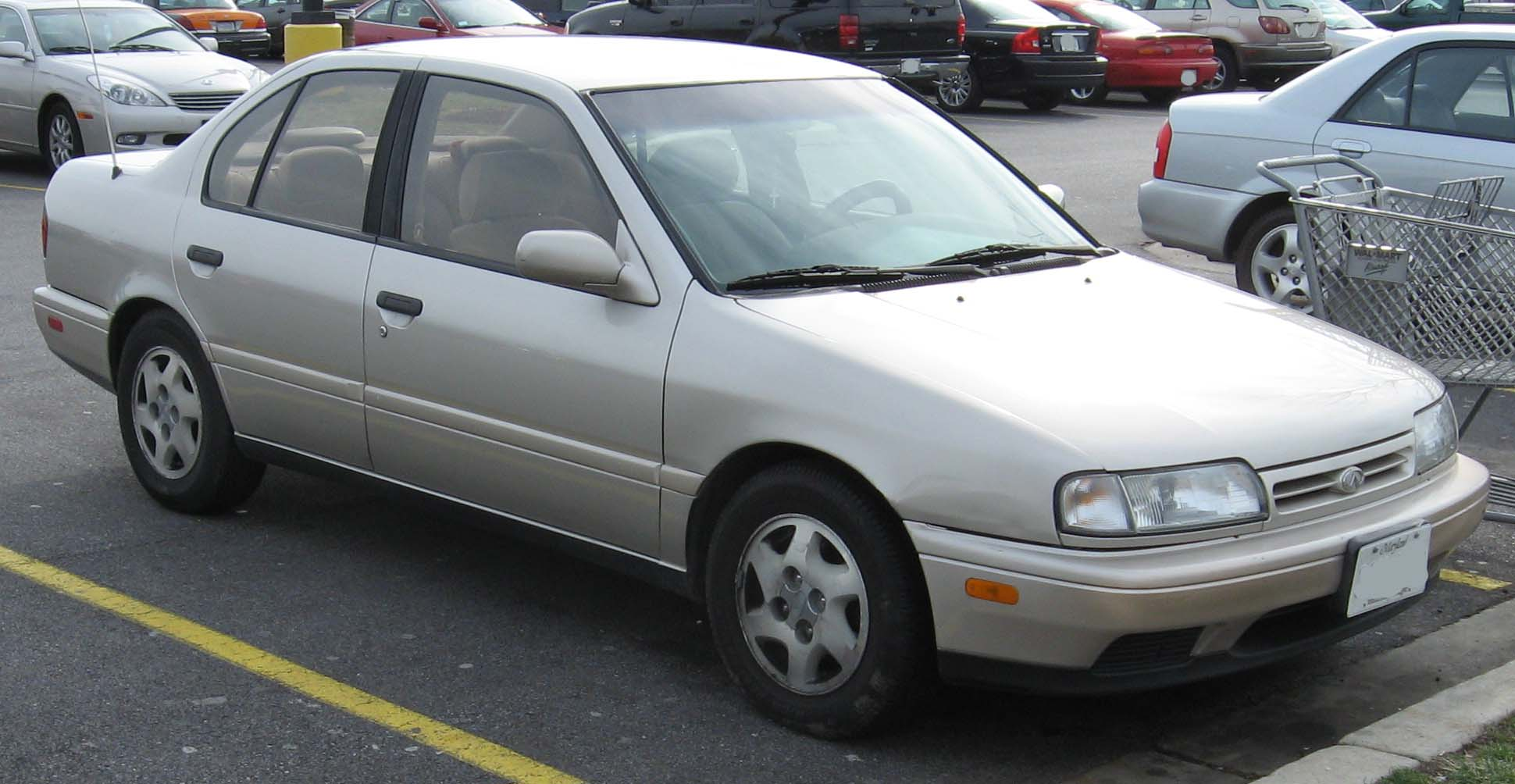 Infiniti G20 photographed in USA.